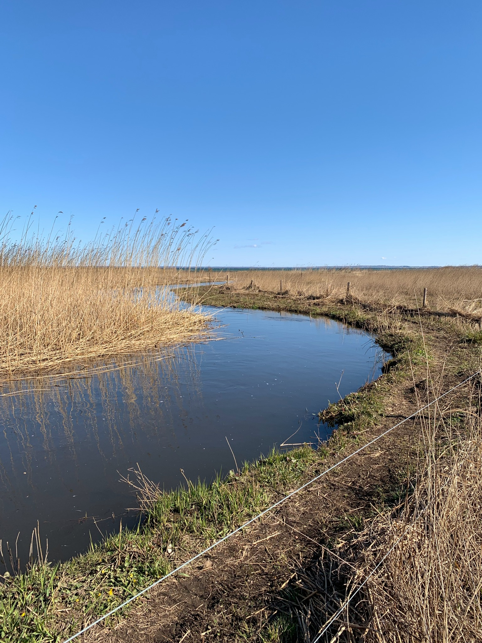 Nivå at Nivå Bugt beach meadows